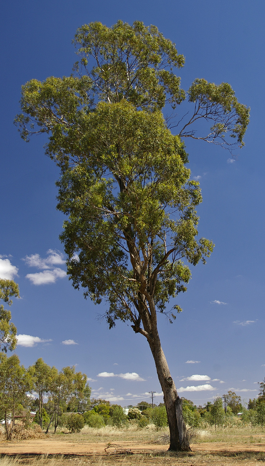 Eucalyptus melliodora (Yellow Box) photographed in Wagga Wagga, New South Wales.